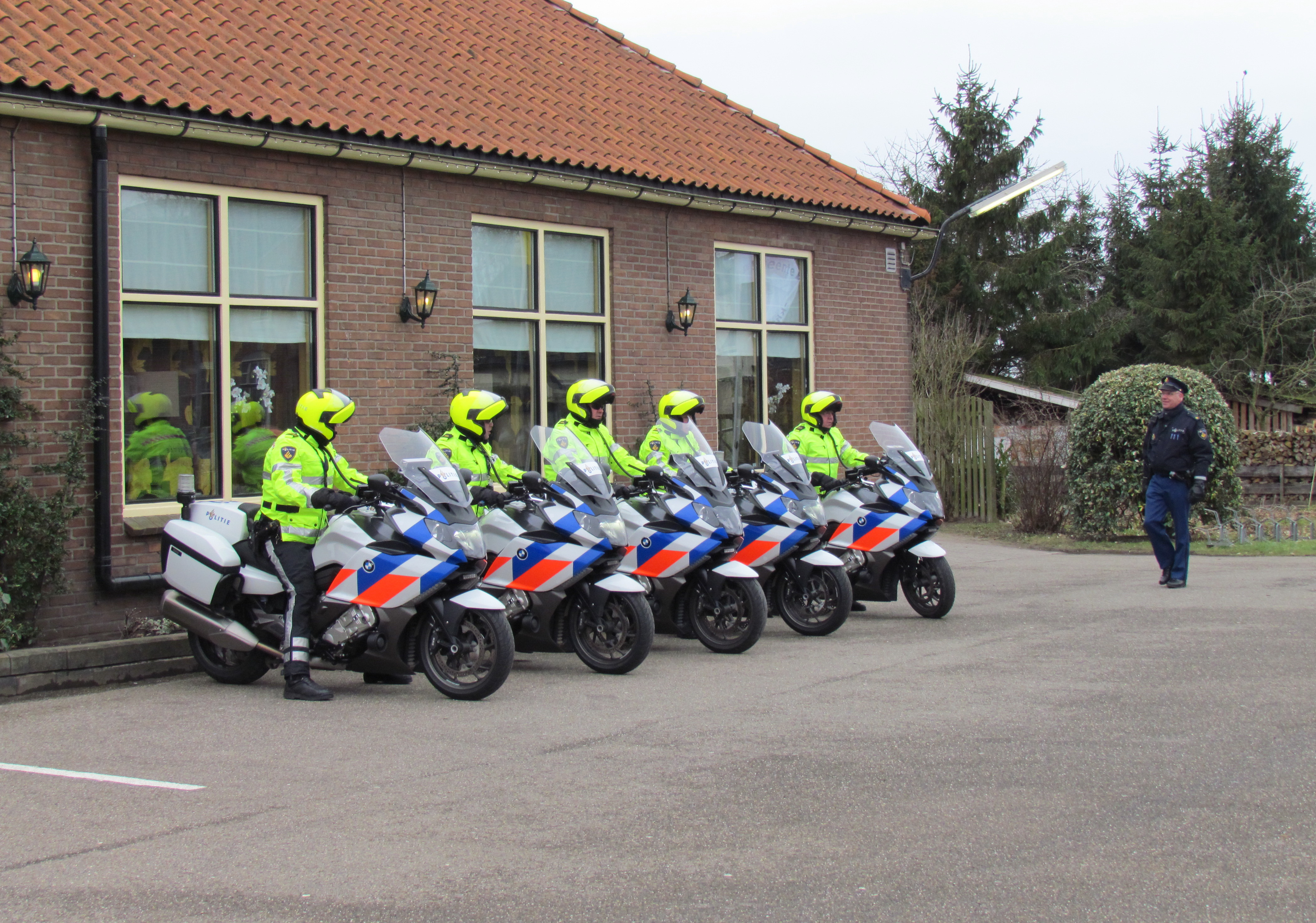 Dutch police on motorcycles